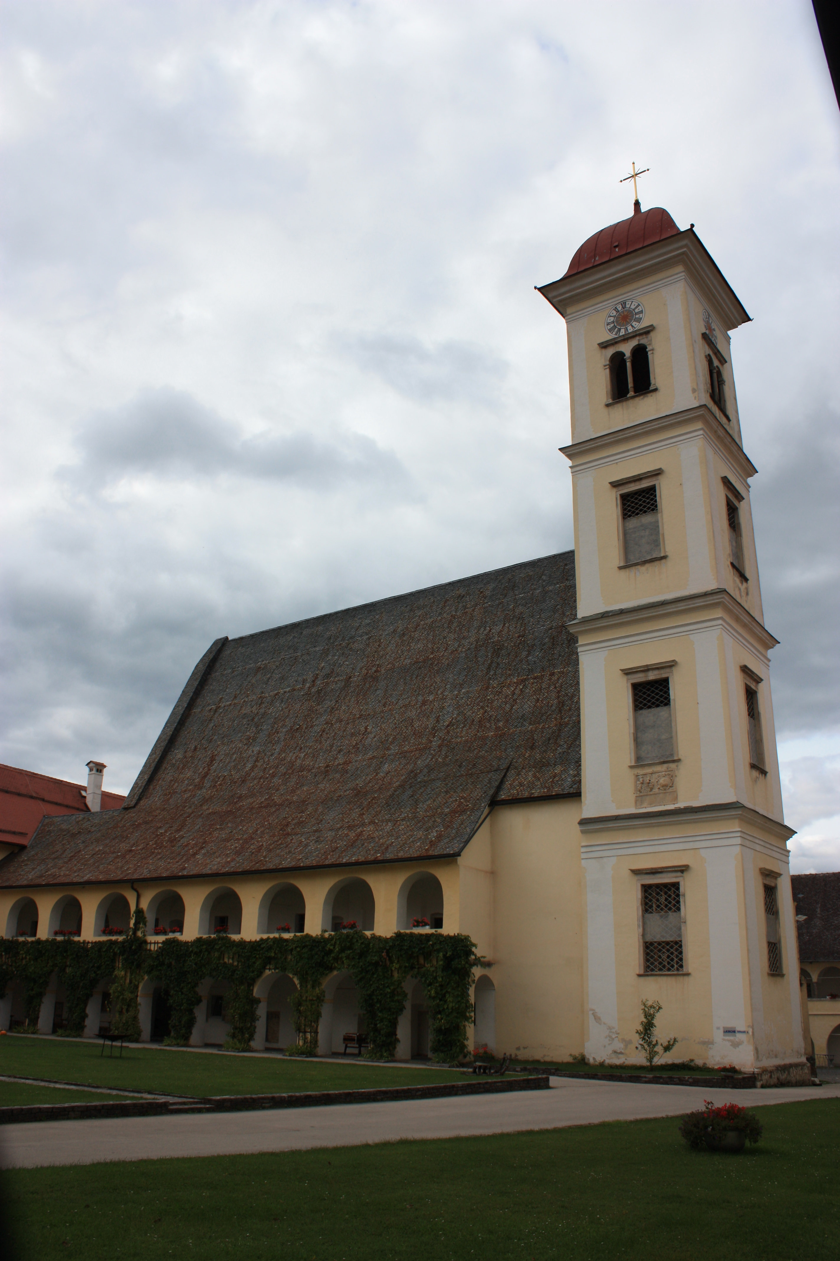 Monastery church Locality: Sankt Georgen am Längsee Community:Sankt Georgen am Längsee